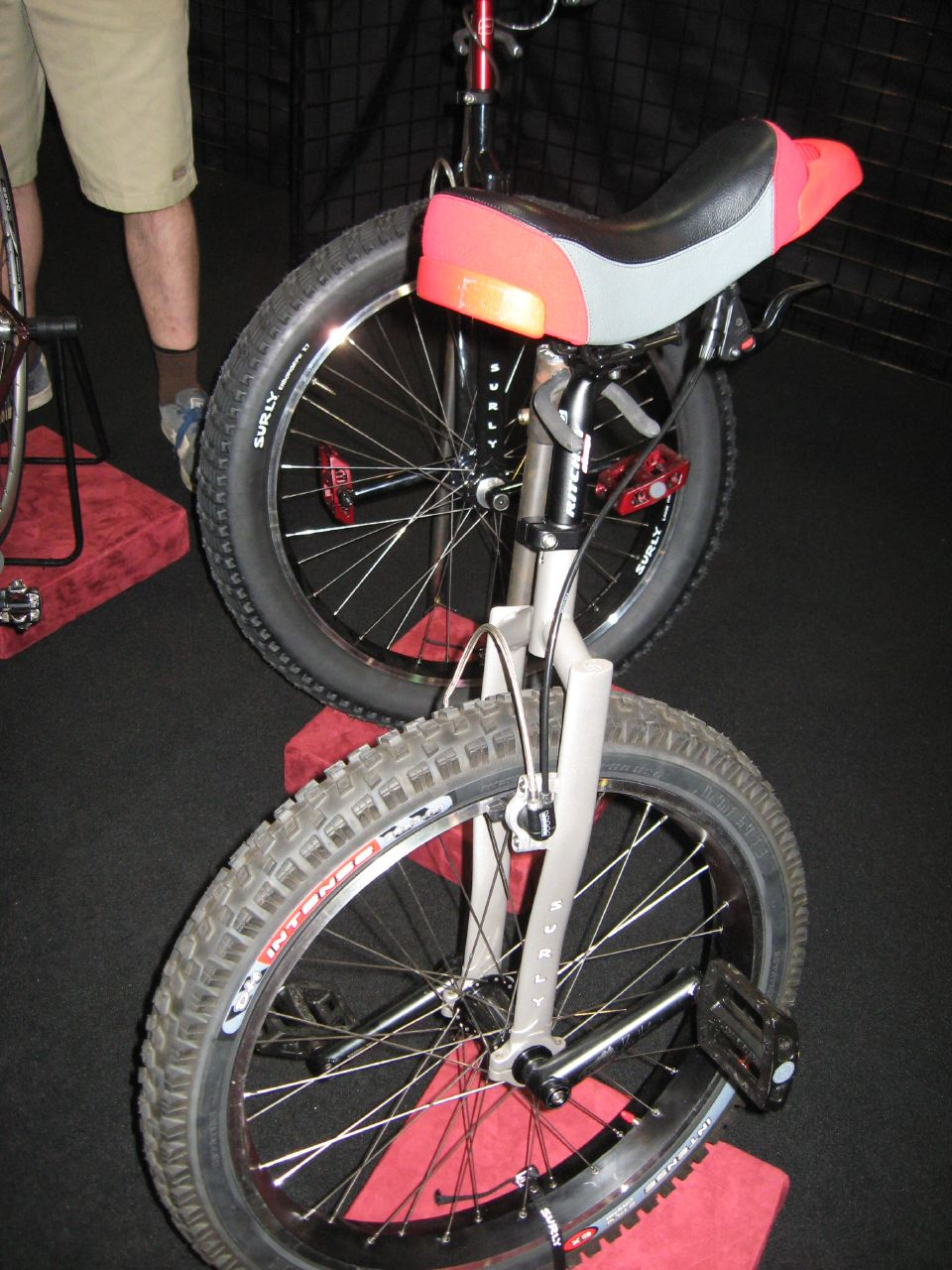 Surly Conundrum at Interbike 2007.